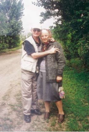 ישראל שריר עם ולדימירה בתו של חסיד אומות העולם מיכאיל בלגאי שהציל אותו